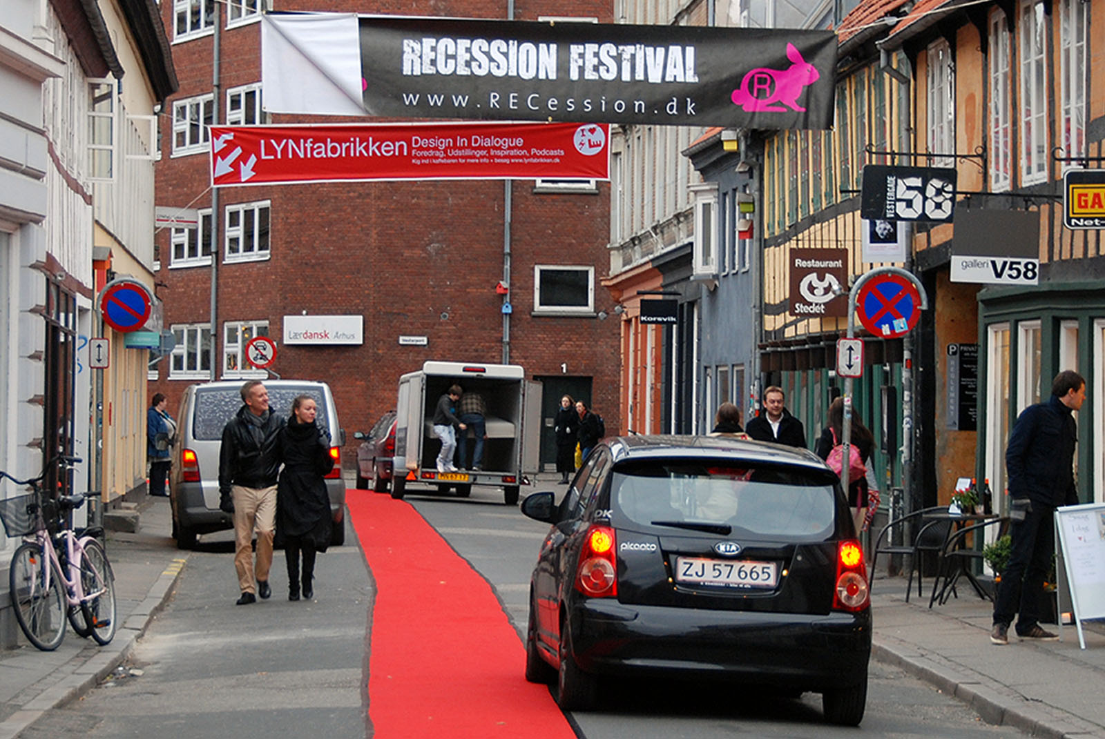 Vestergade, Aarhus, festuge